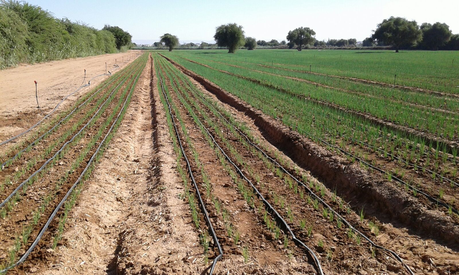 Onion plantation Ain el madiour